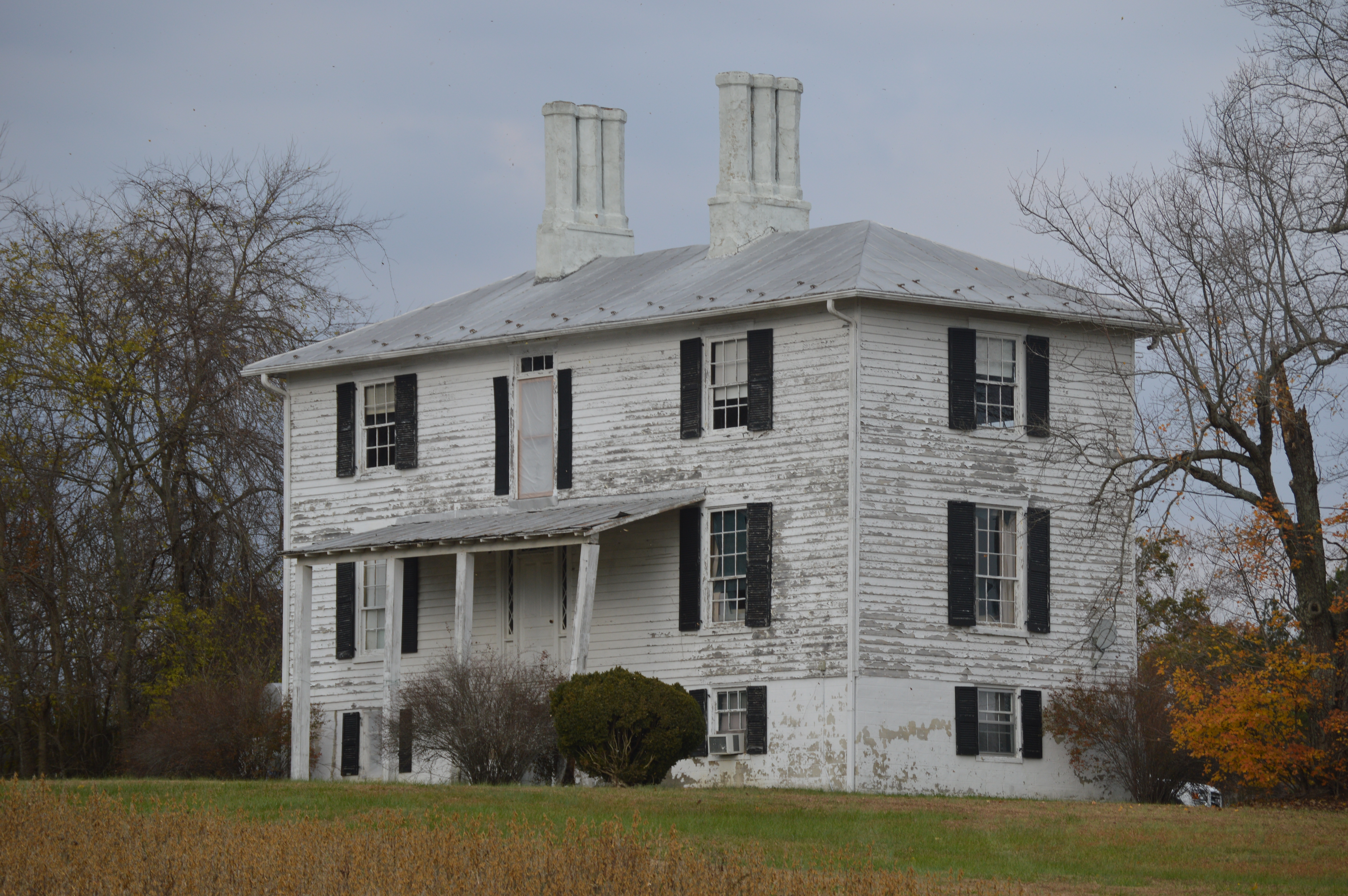 View from the south of Eubank Hall, located at 319 Eubanks Road north of Fort Mitchell in Lunenburg County, Virginia, United States. Built in 1846, it is listed on the National Register of Historic Places.